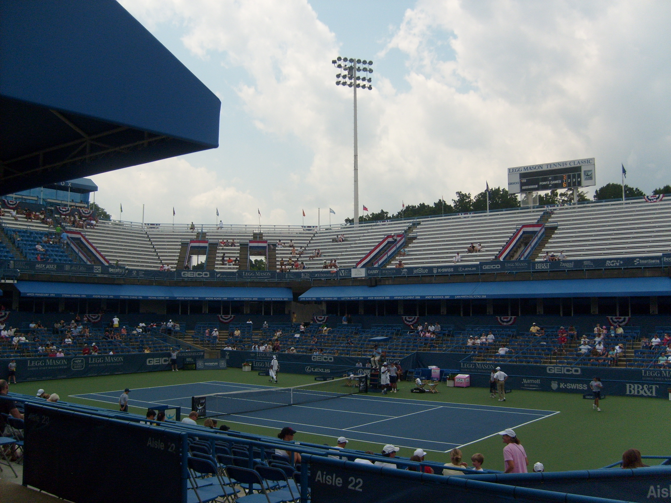 Inside the William H.G. FitzGerald Tennis Center, which is home to the Legg Mason Tennis Classic.